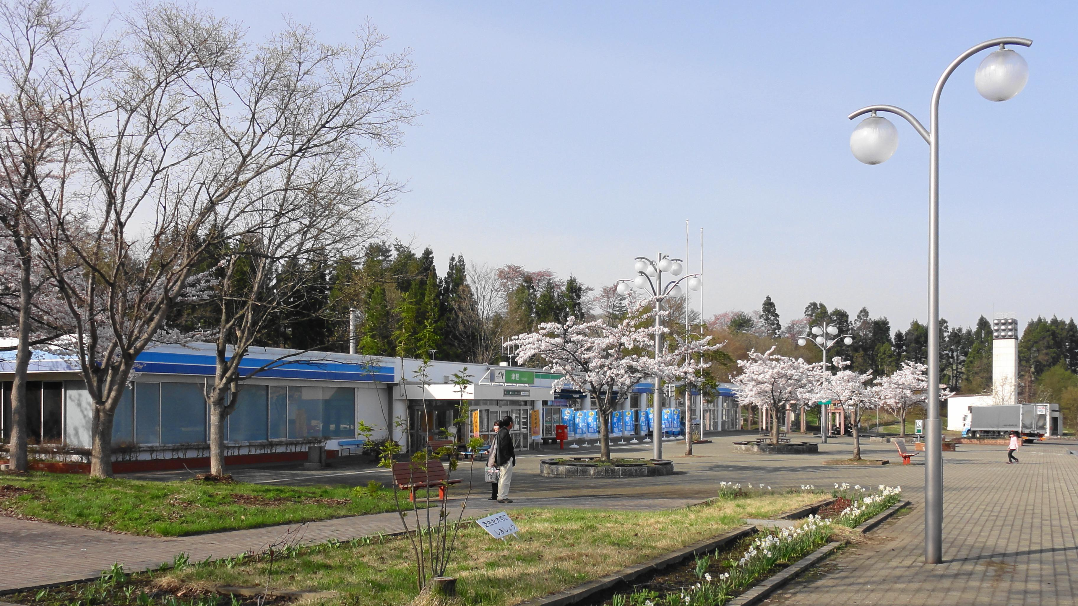 Tsuruga Service Area,Aomori prefecture, Japan